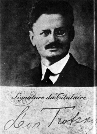 Léon Trotsky — as he appeared on his French passport (1917).